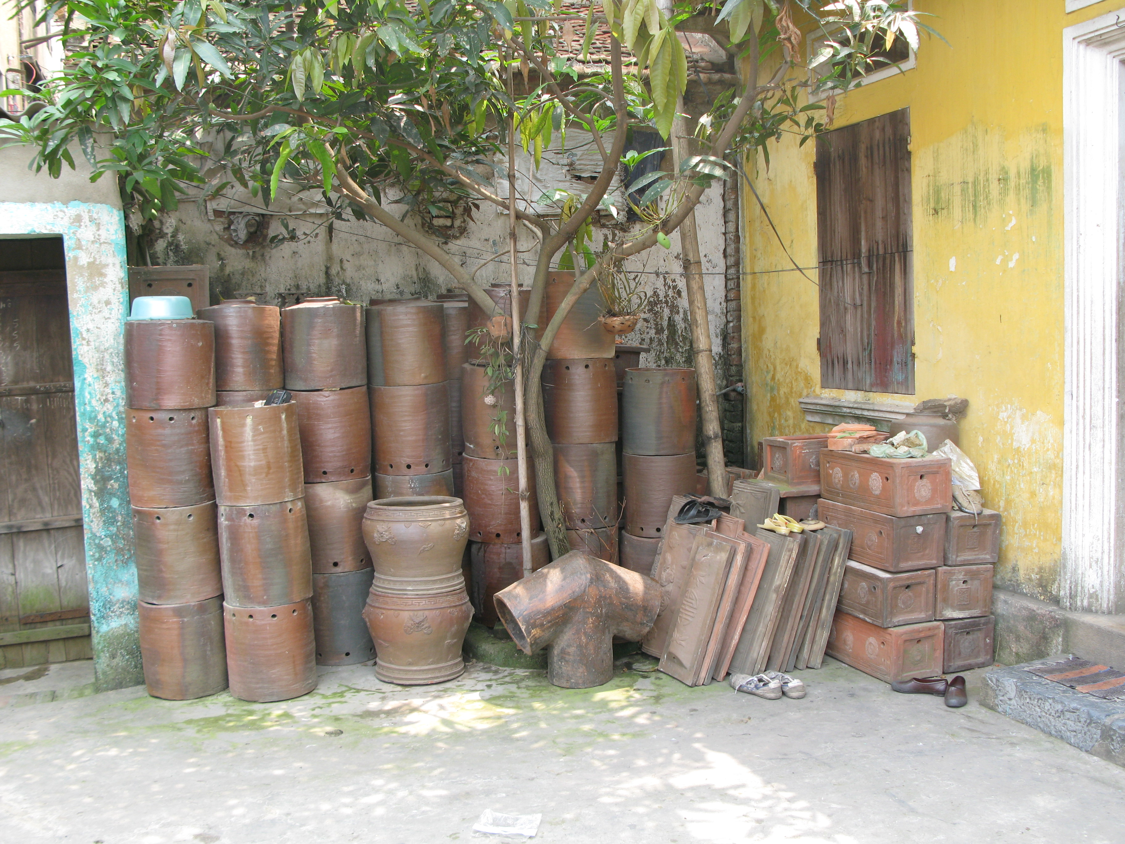 The pottery products of Tho Ha village, Bac Giang Province